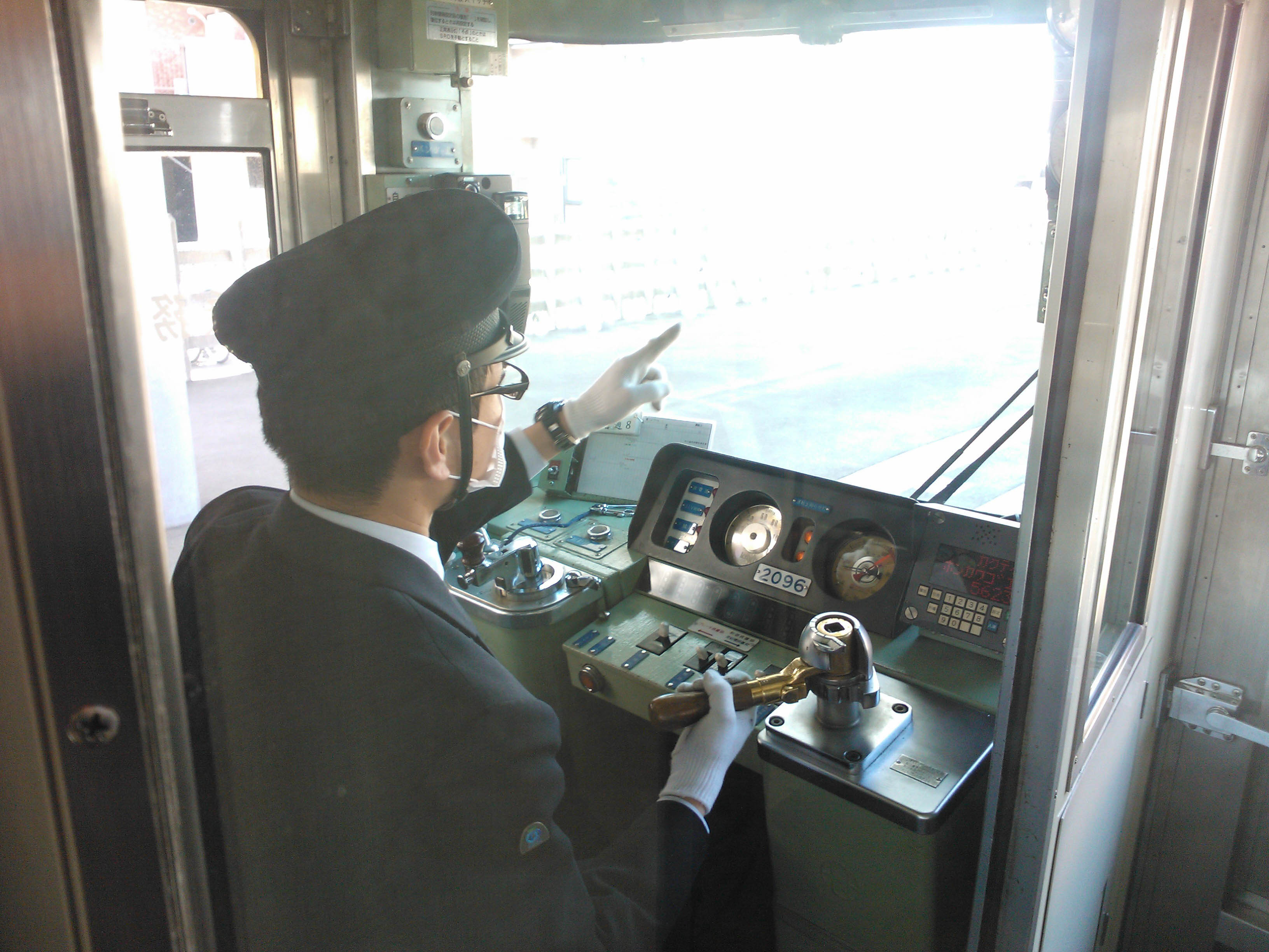 Train drivers are drilled to not only look at stop signs, but to also point at them. Tokyo, Japan